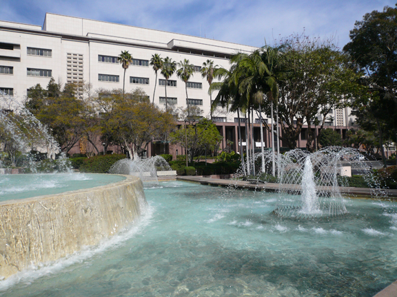 The Arthur J. Will Memorial Fountain in the Civic Center Mall (in 2007), Downtown Los Angeles. "A tiered stunner of cascading and jumping water in the often-unexplored center of downtown." Refurbished as a western focal point of the new civic Grand Park that replaced the Civic Center Mall in 2012.Downtown Los Angeles Fountain, 2